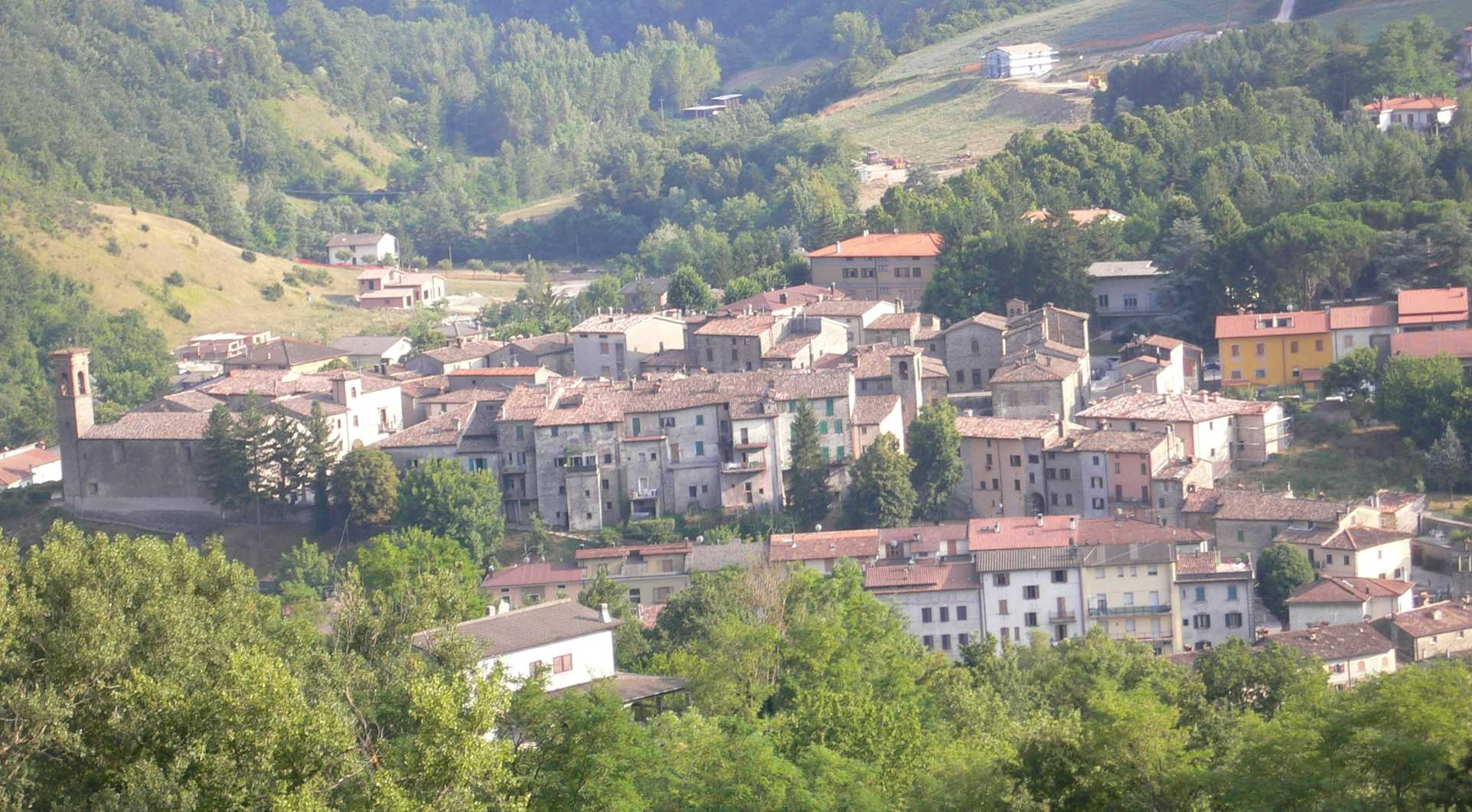 panoramical view of Apecchio